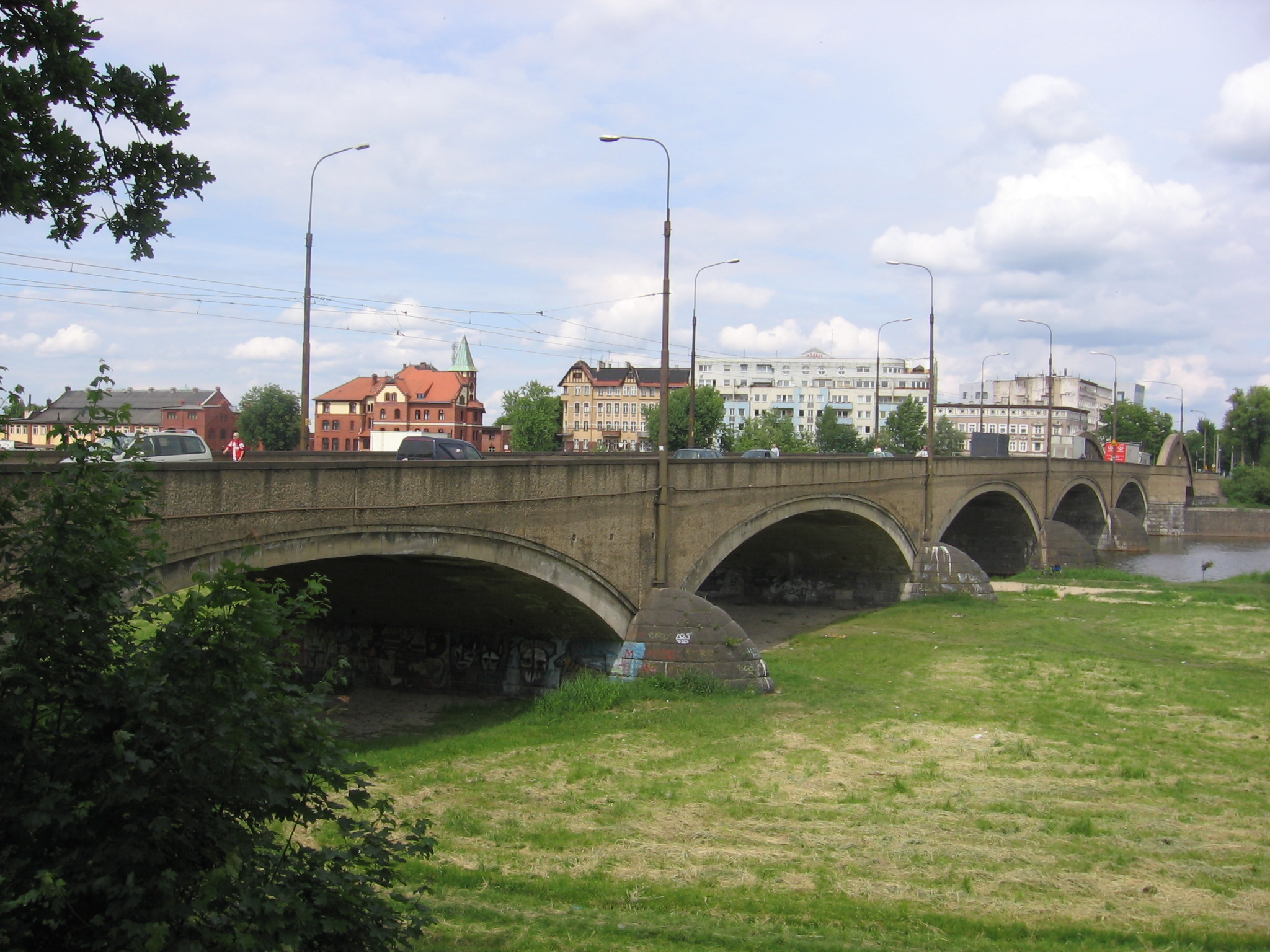 Eastern (in background - one span, with bows) and Center (five span) Warszawskie Bridges in Wrocław, Polandstand 2006, before erection new bridges